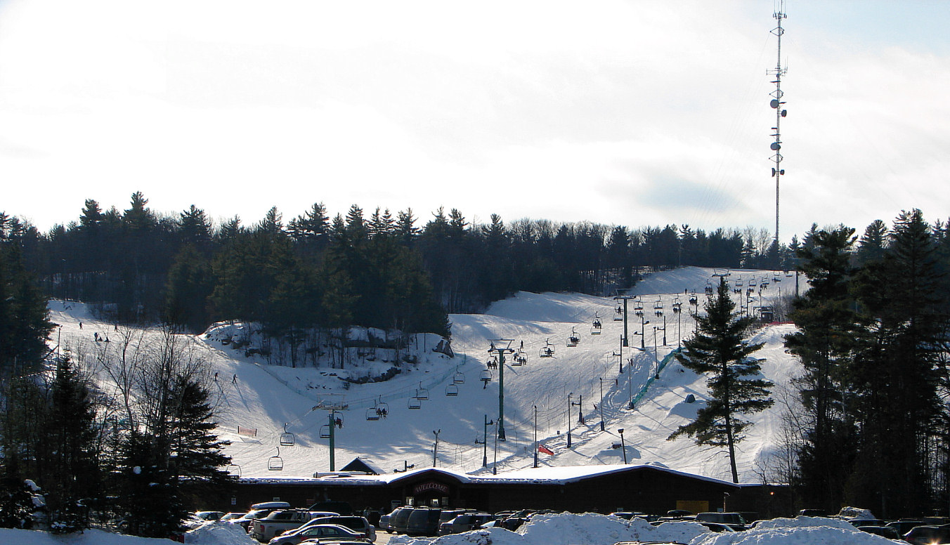 Mount Pakenham, Municipality of Mississippi Mills, Ontario, Canada